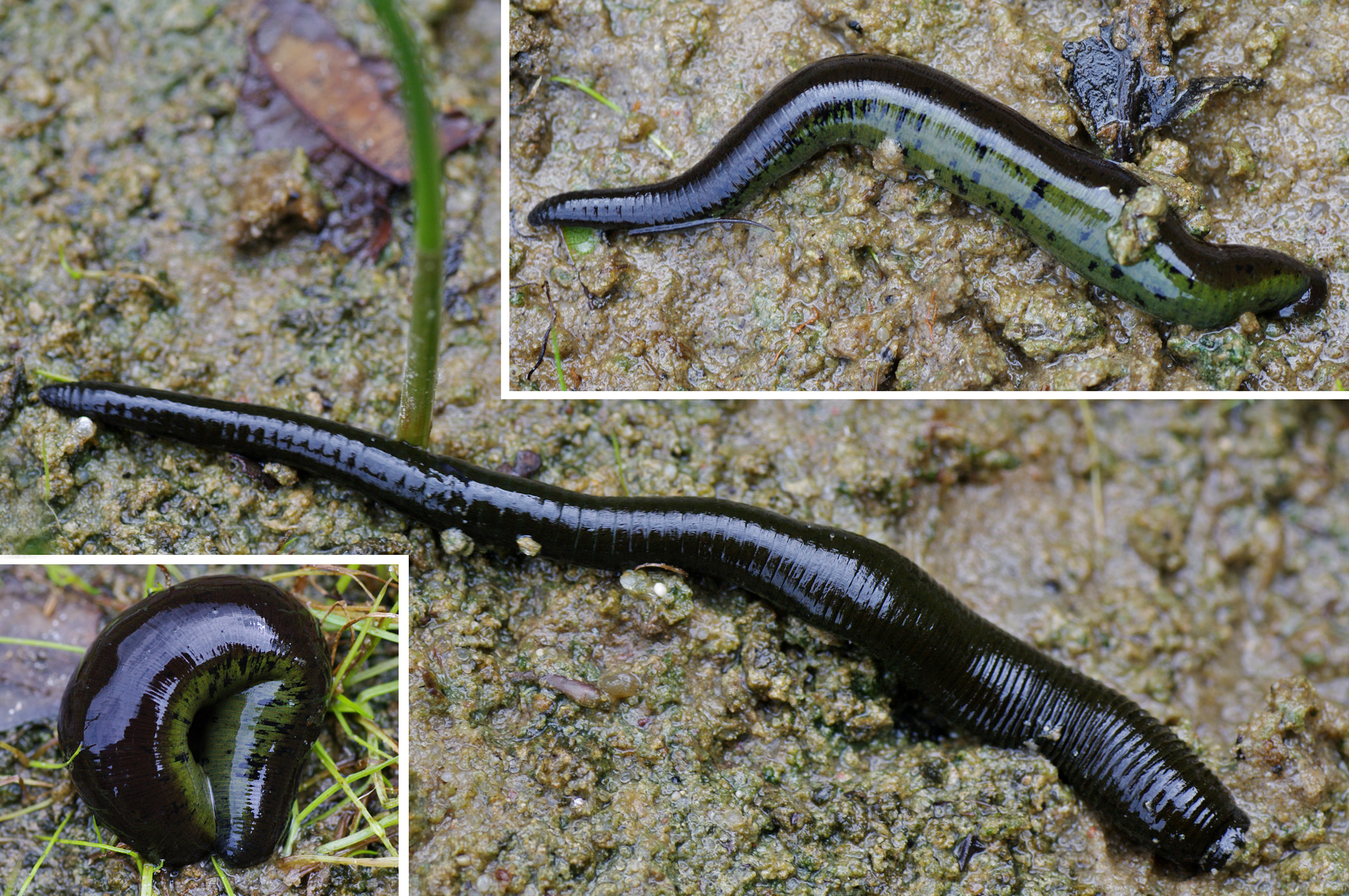 The Horse Leech, Haemopis sanguisuga.